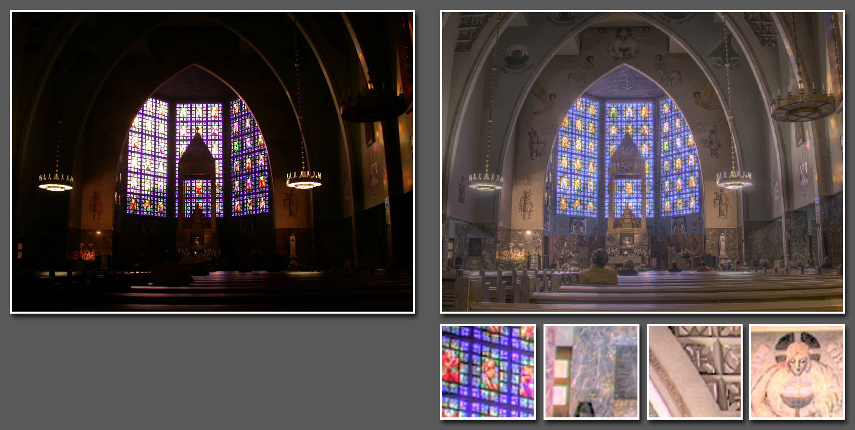 Igreja Nossa Senhora de Fatima, Lisbon. Sample scene for HDRI. Left: photo taken with auto exposure, right: tonemapped HDR image (using Mantiuk's operator). The small images on the bottom are individually tonemapped sections of the image.